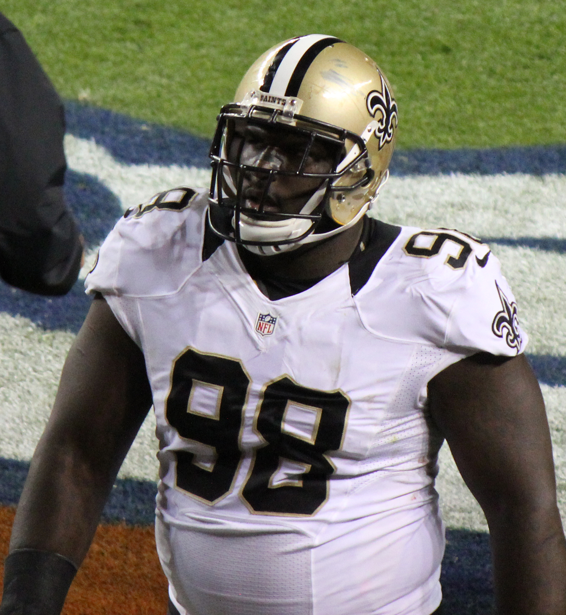 Sedrick Ellis, a player on the National Football League.